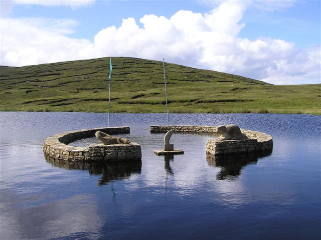 Aranmore Island A sculpture at Lough Thoir